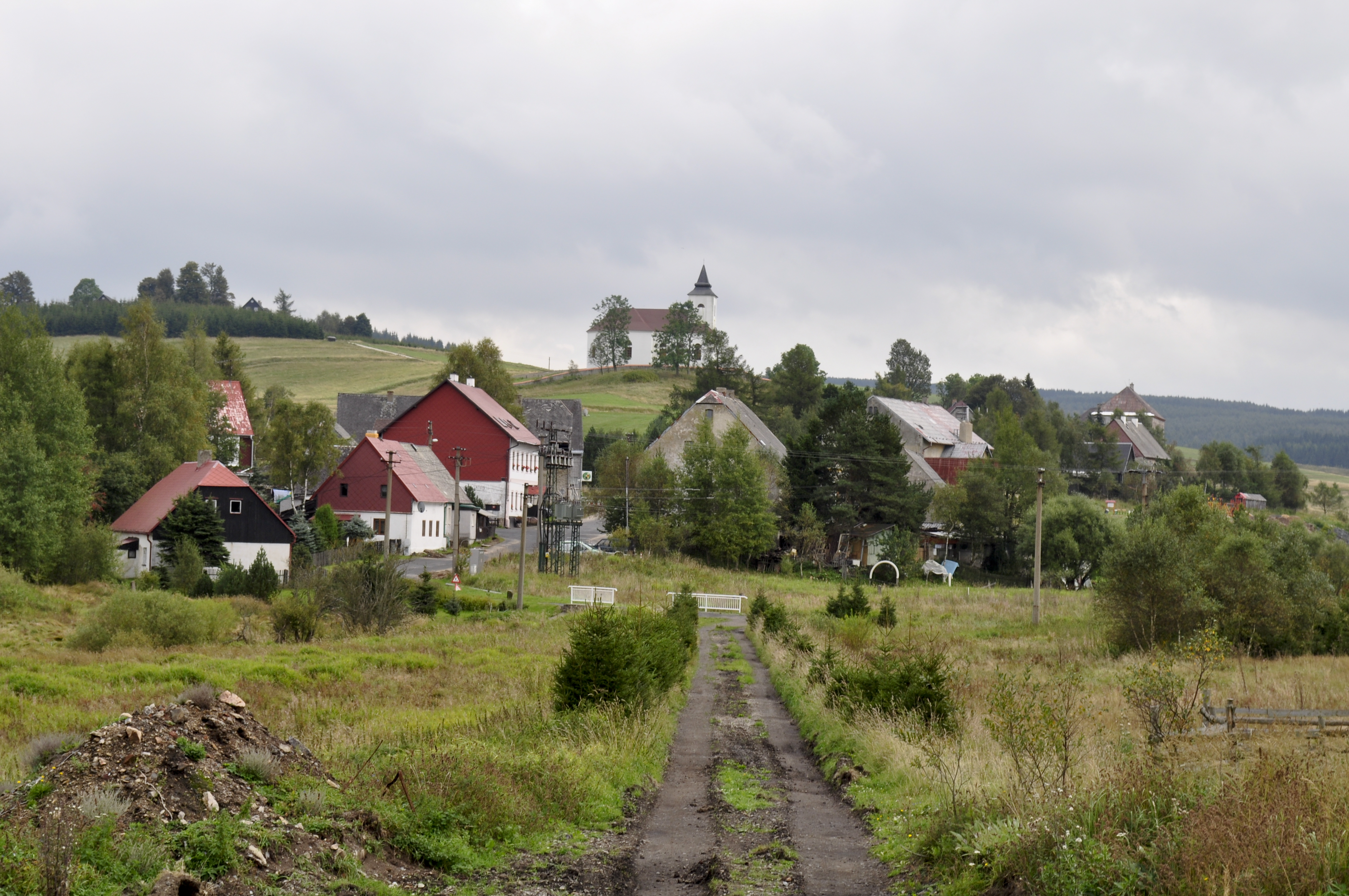 Kalek - part of the village with church